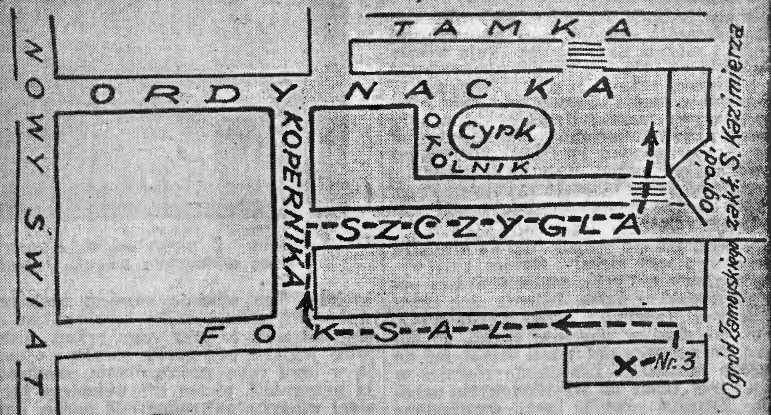 A sketch showing minister Bronisław Pieracki's murder's route during his escape after the assassination.